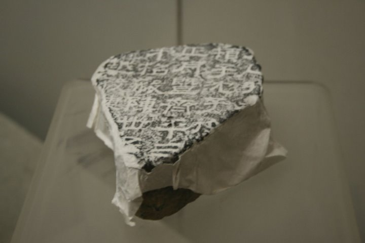 A fragment (with rubbing paper placed on top) of the Chinese 'Stone Classics' 熹平石經. These are carved inscriptions of the Confucian Five Classics that were once installed along the roadside of the Imperial University, located right outside the capital city of Luoyang during the latter half of the Chinese Eastern Han Dynasty (2nd century AD).